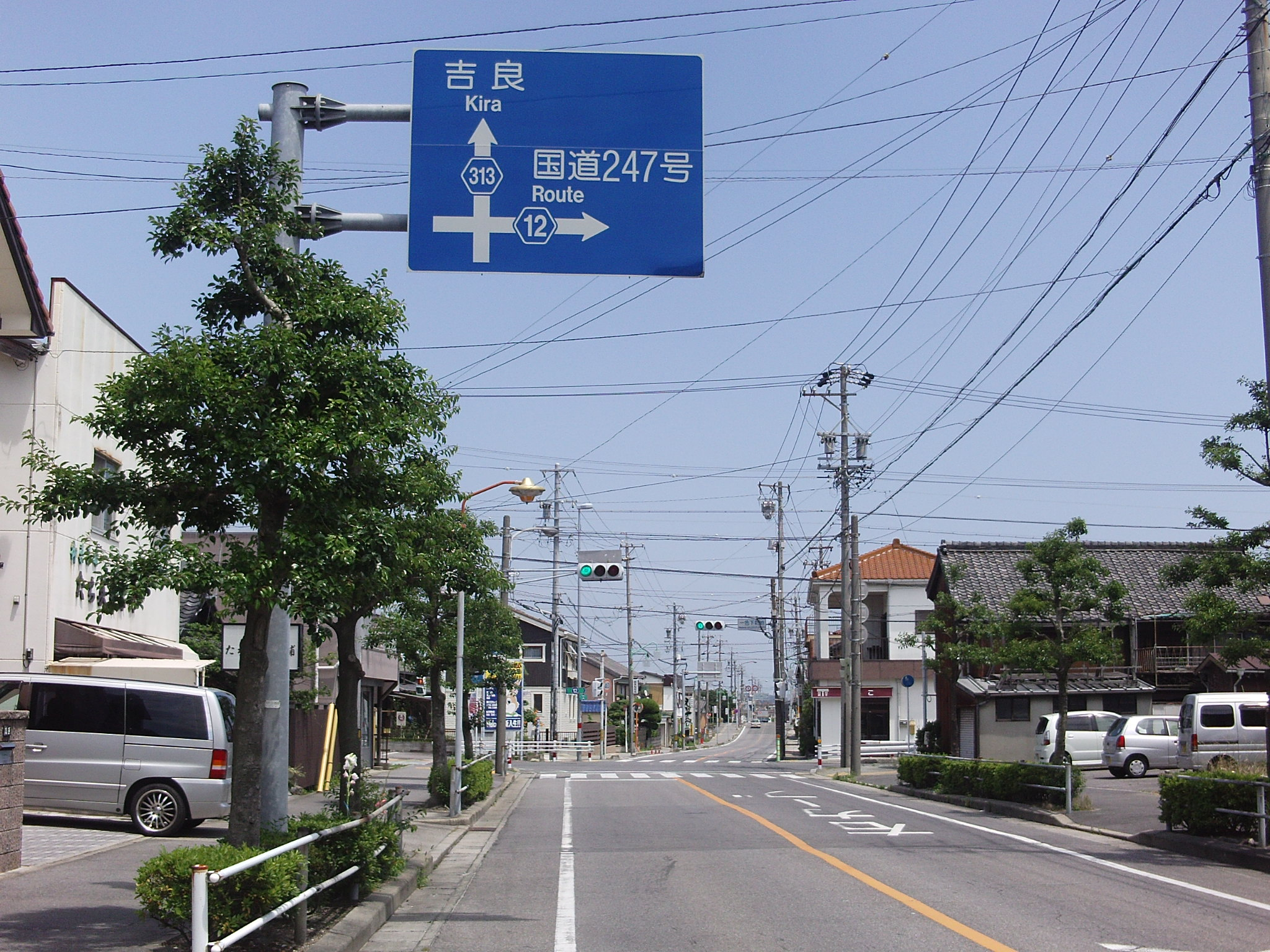 Aichi prefectural road No.313 in Isshikichoisshiki, Nishio, Aichi.